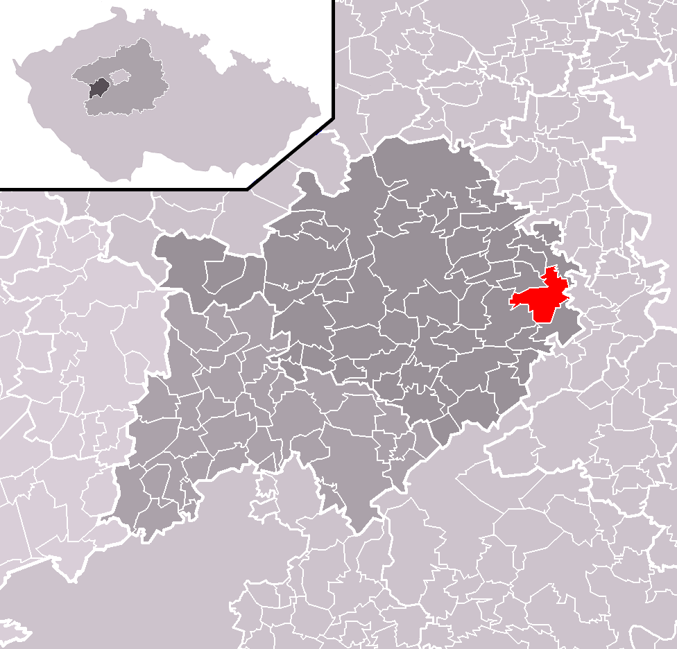 Location of Mořina municipality within Beroun District and administrative area of Beroun as a Municipality with Extended Competence.